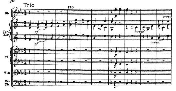 Trio from Beethoven's 3rd. Symphony